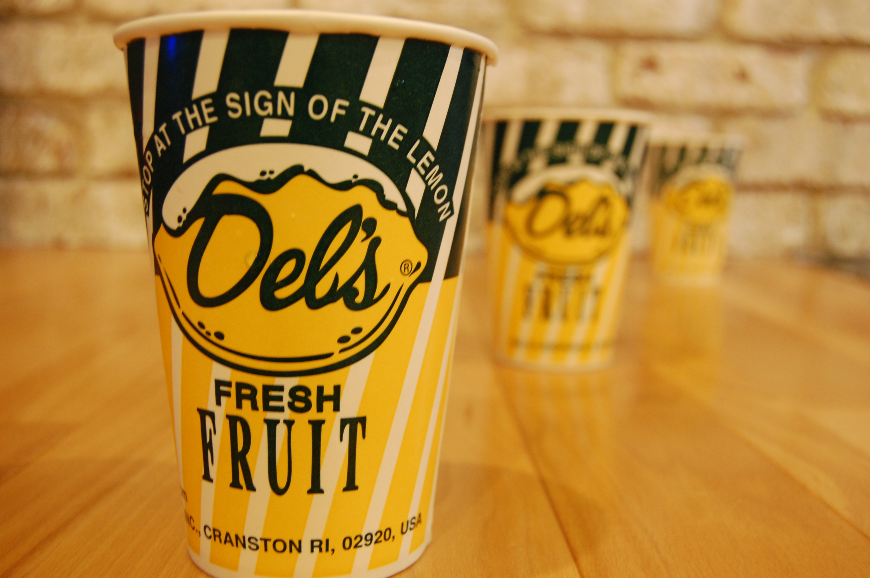 A container of Del's Lemonade, taken in Rhode Island